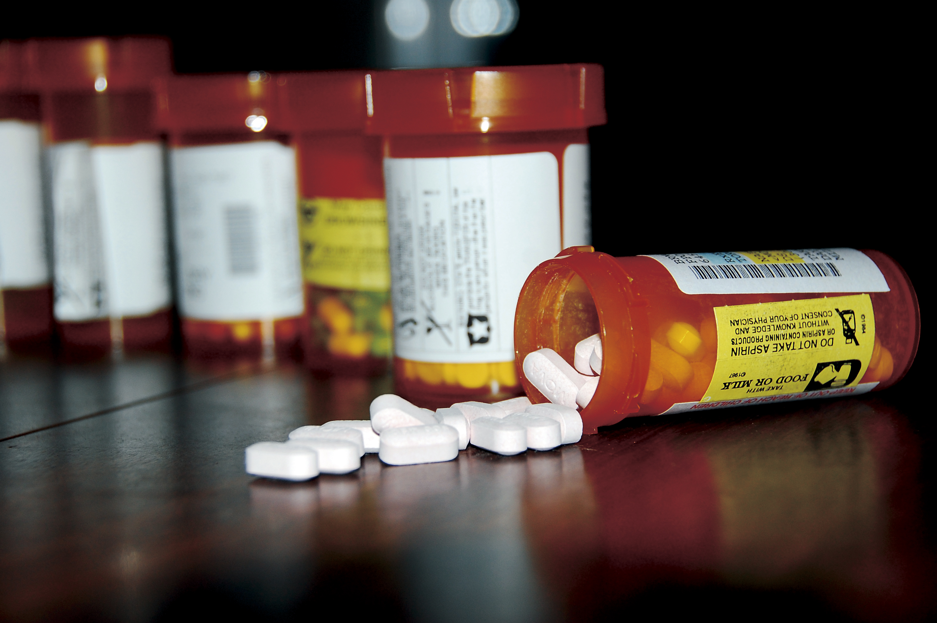 Controlled substances, although prescribed to an individual, expire when the medication is no longer needed or the number of days supply listed on the bottle has passed. Prescription medication should be discarded properly by returning the remaining portion to the main pharmacy at the U.S. Naval Hospital, Okinawa. Ingesting expired, controlled substances is chargeable under article 112a of the Uniform Code of Military Justice.